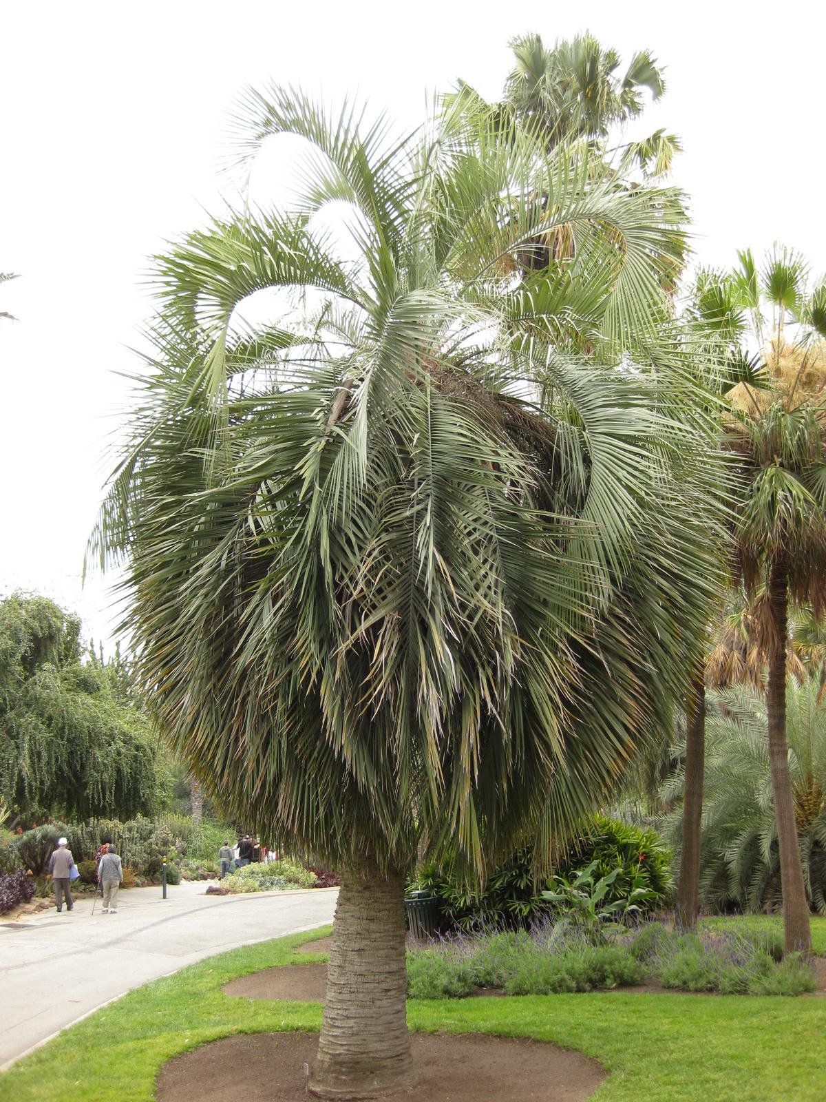 Photographed at Huntington Gardens (Los Angeles) in April